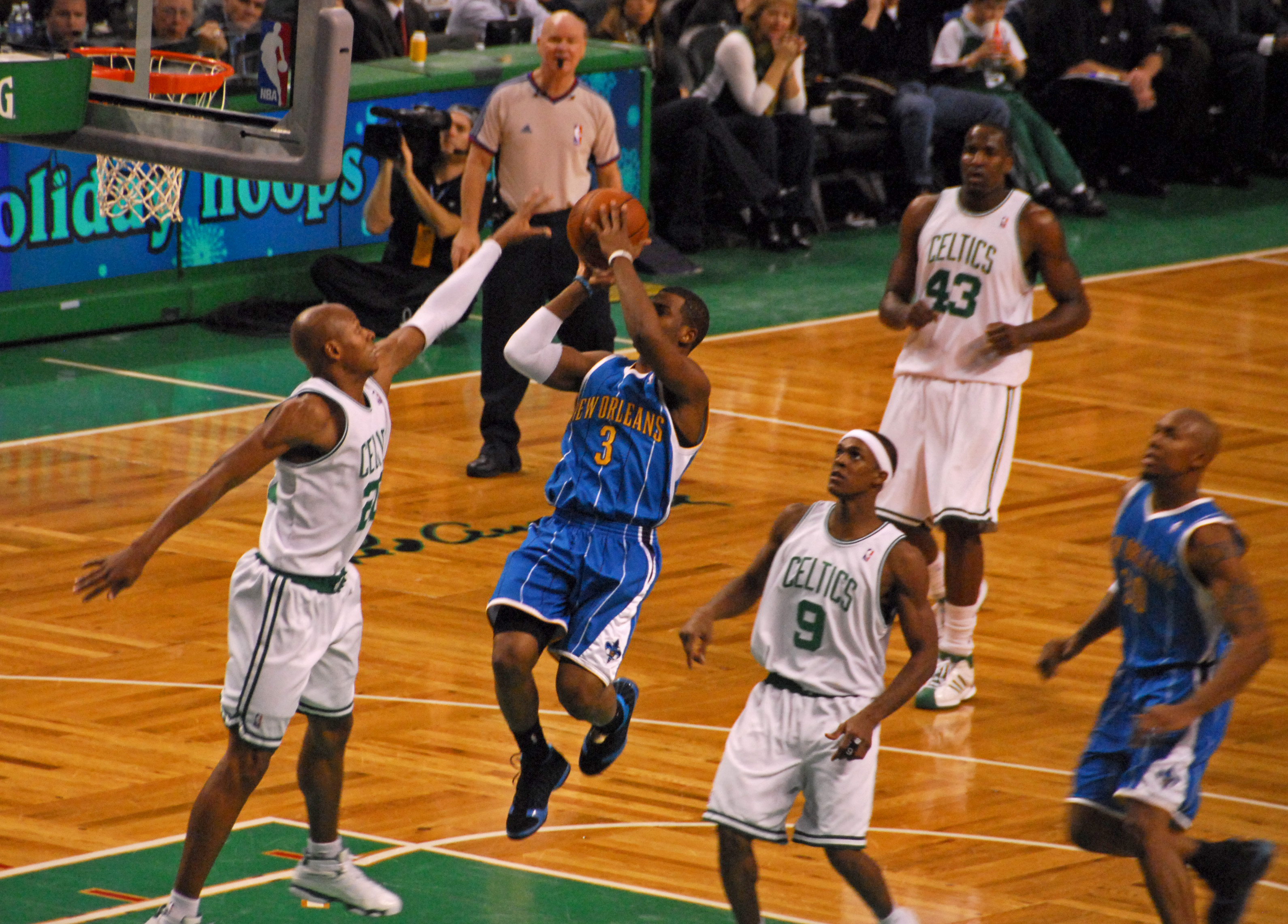 Chris Paul in a game against Boston, 2008-09